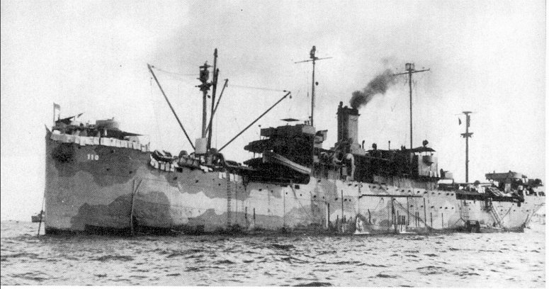 USS Ocelot (IX-110) at Ulithi while serving as Service Squadron Ten flagship, 6 May 1945. This photo appears to have been taken while the crew was airing bedding, note the mattresses hanging over the railings. Ocelot is painted in Measure 31 Design 9Ax camouflage. US Navy photo from DANFS.